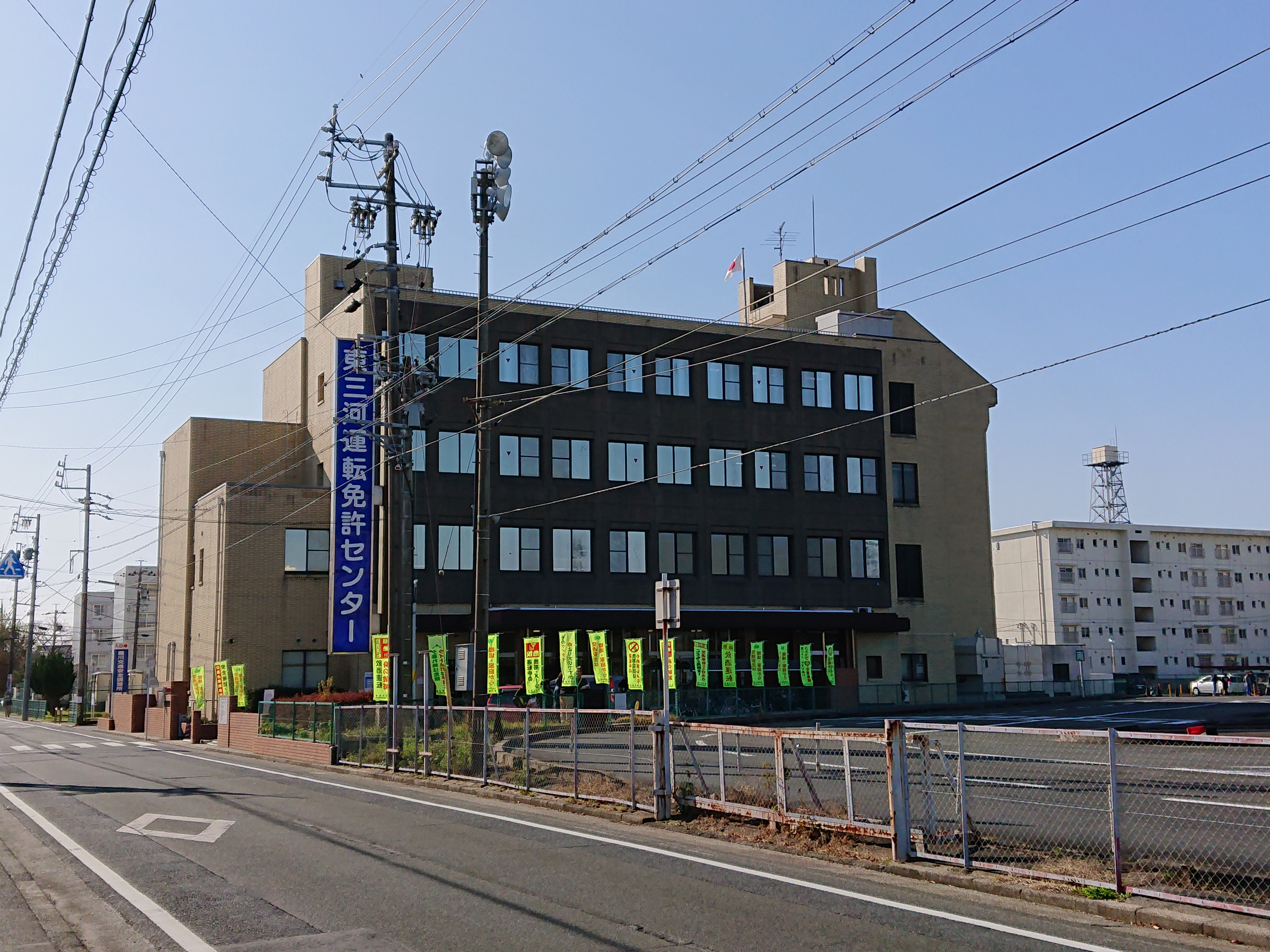 Higashi-mikawa Driver's License Center, at 2-7 Kanayanishi-machi, Toyokawa, Aichi, Japan